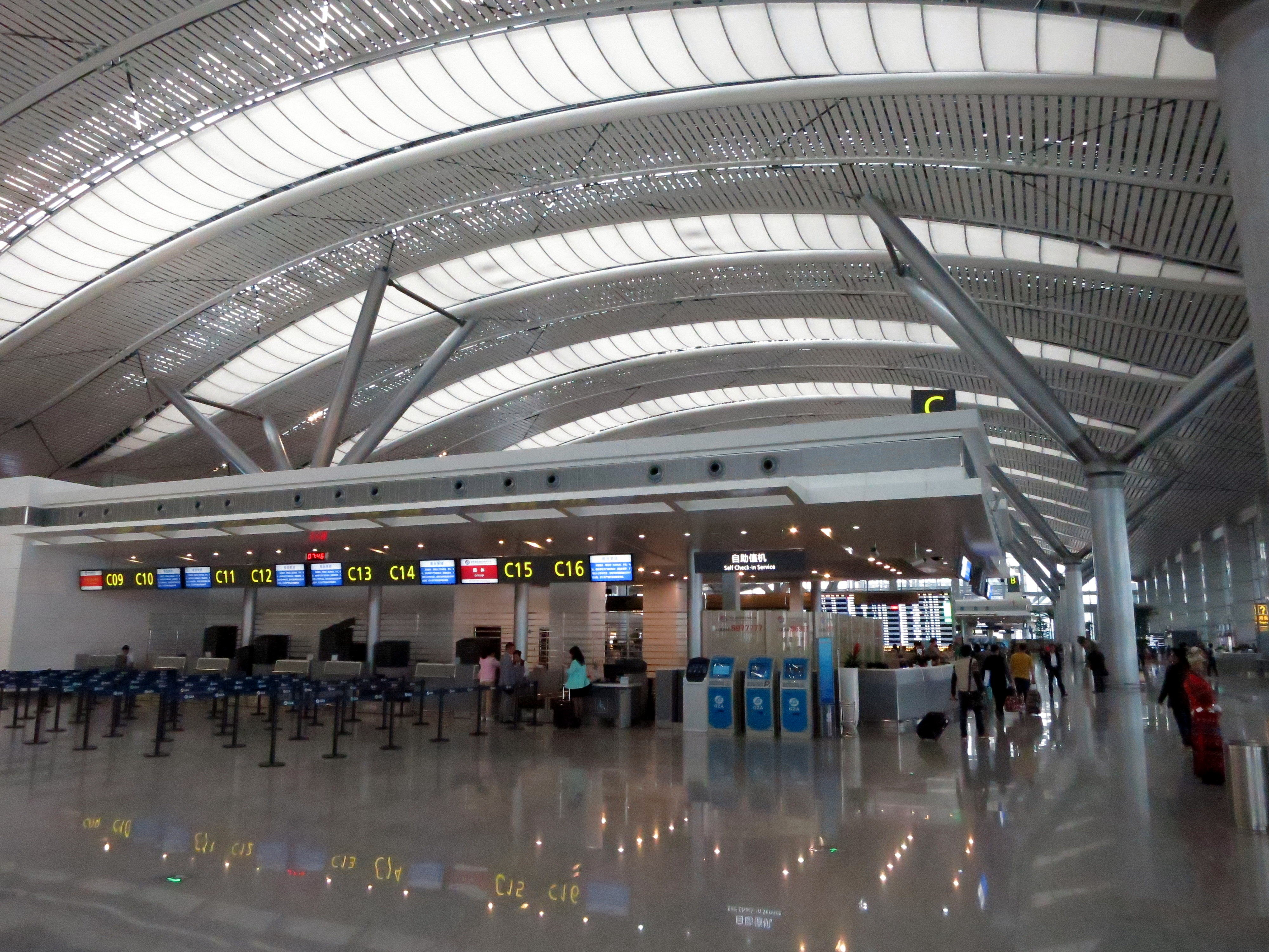 Guiyang Longdongpu International Airport